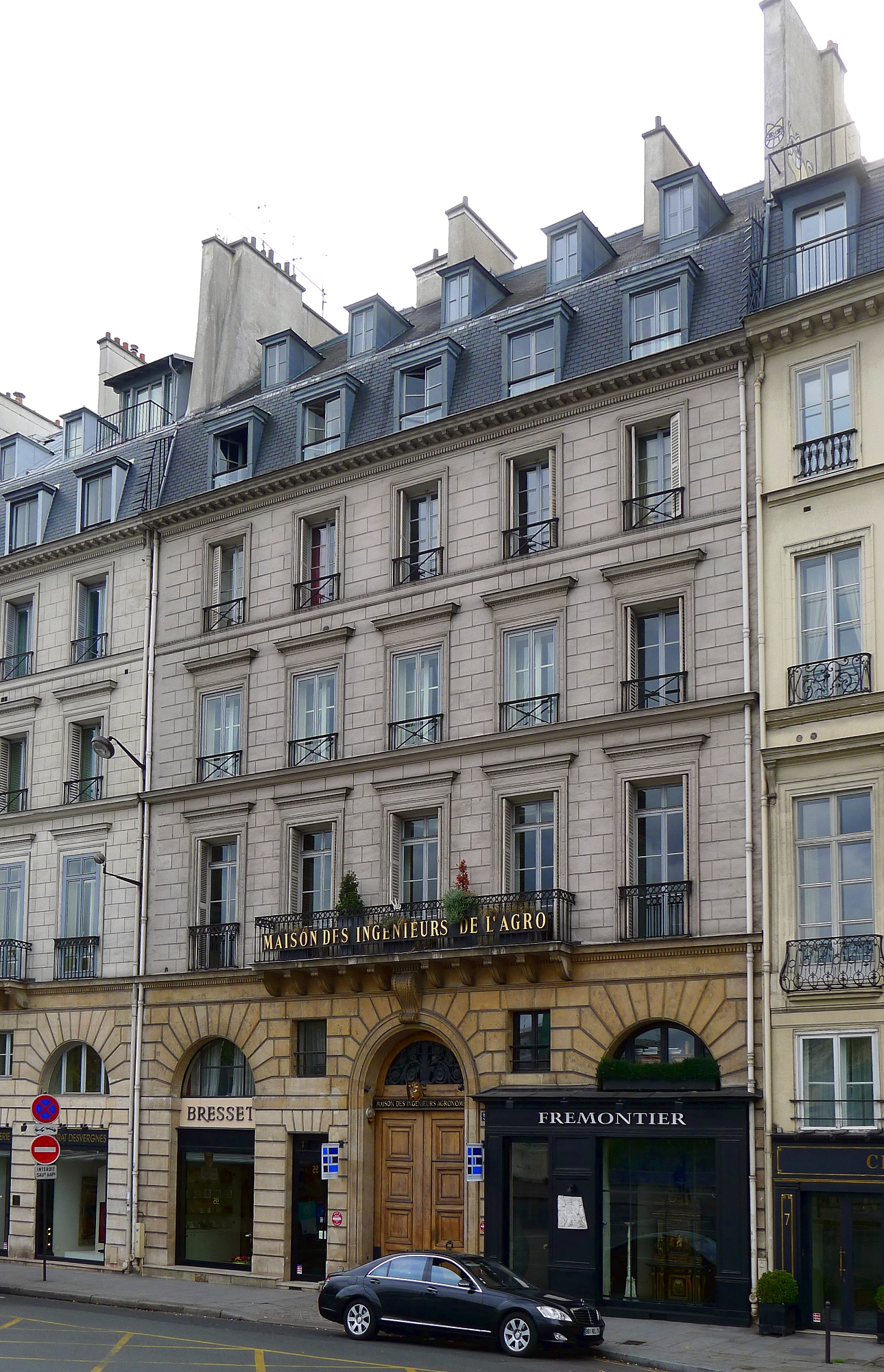 Quai Voltaire (n°5) - Paris